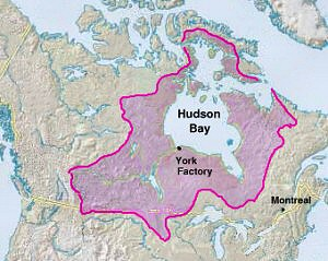 Map of Rupert's Land